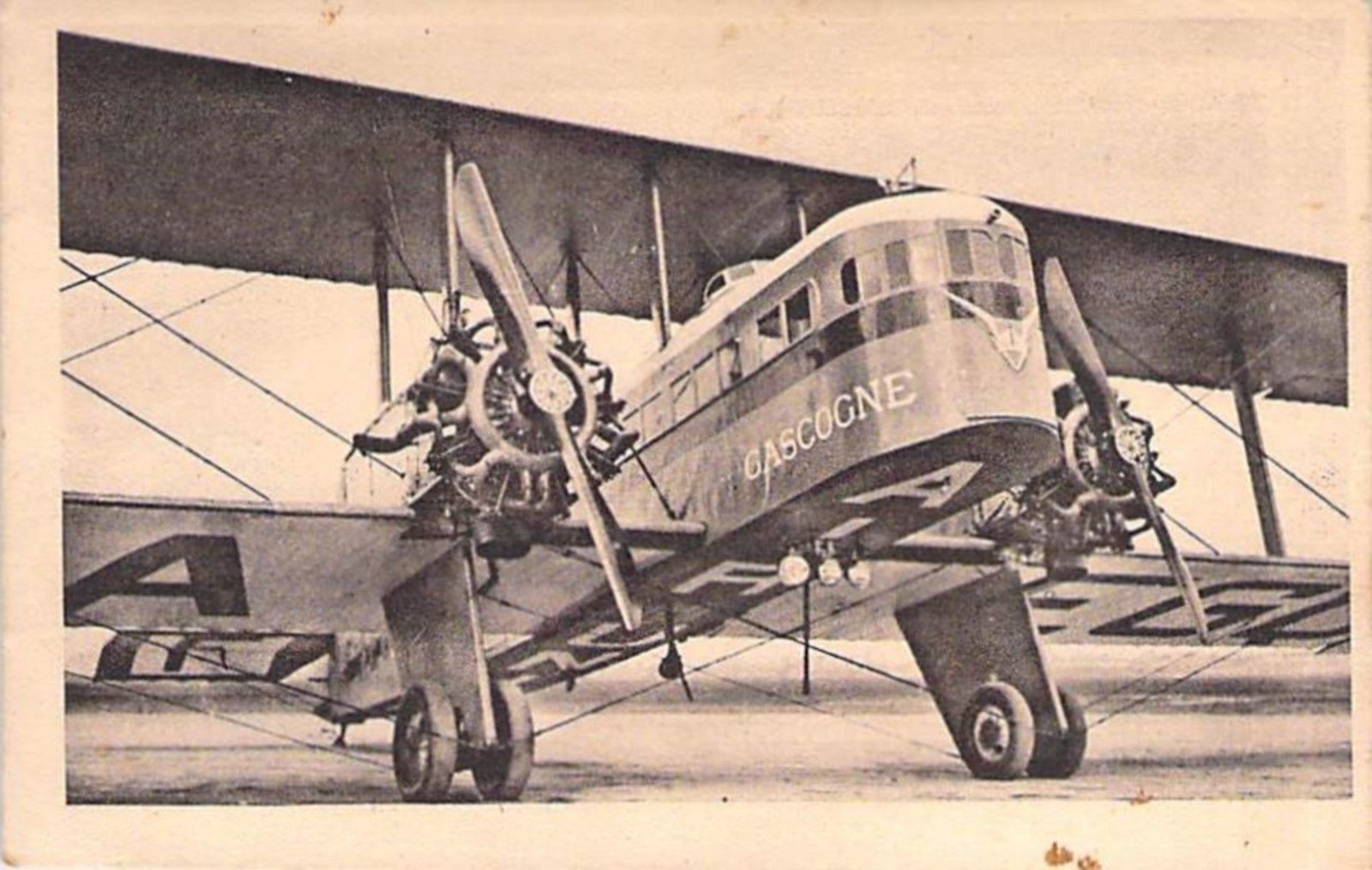 Air Union Farman Goliath F-AEGQ Gascogne, equipped for night flying. Air Union was founded on 1 January 1923; this particular aircraft was retired in November 1931.